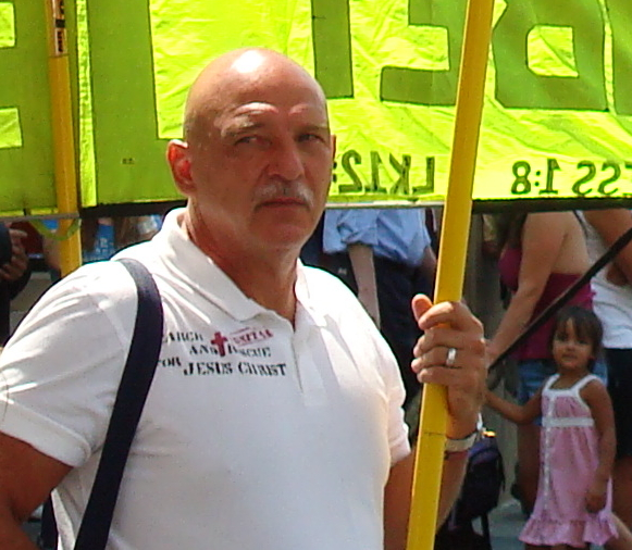 Street Preacher (Michael Peter Woroniecki) at the Democratic National Convention in Denver on August 28, 2008.